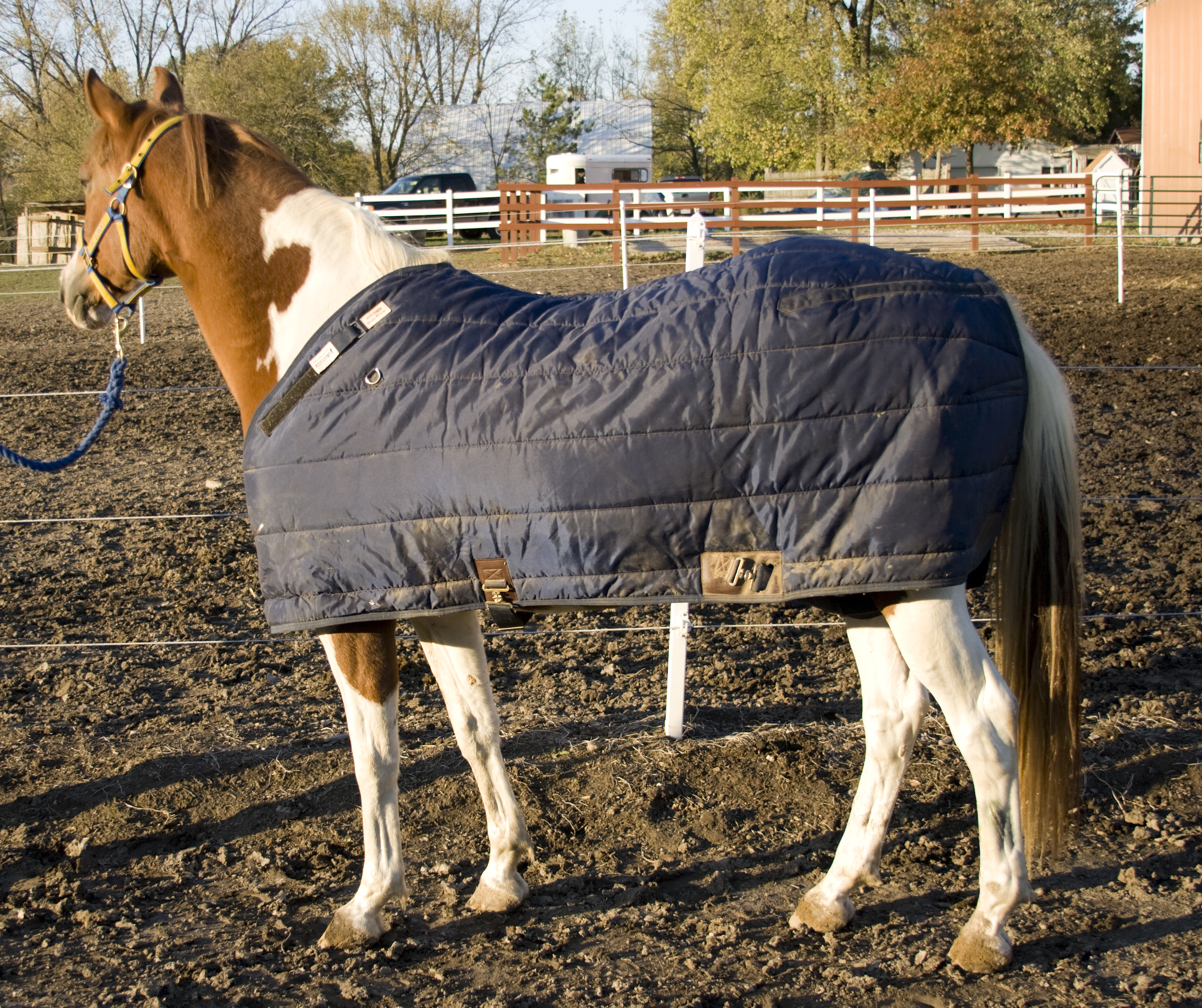 Winter blanket modeled on a pinto three quarters Arabian horse